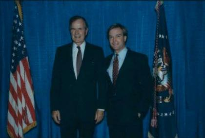 President George H. W. Bush meeting with Bill Schuette and supporters of Bill Schuette